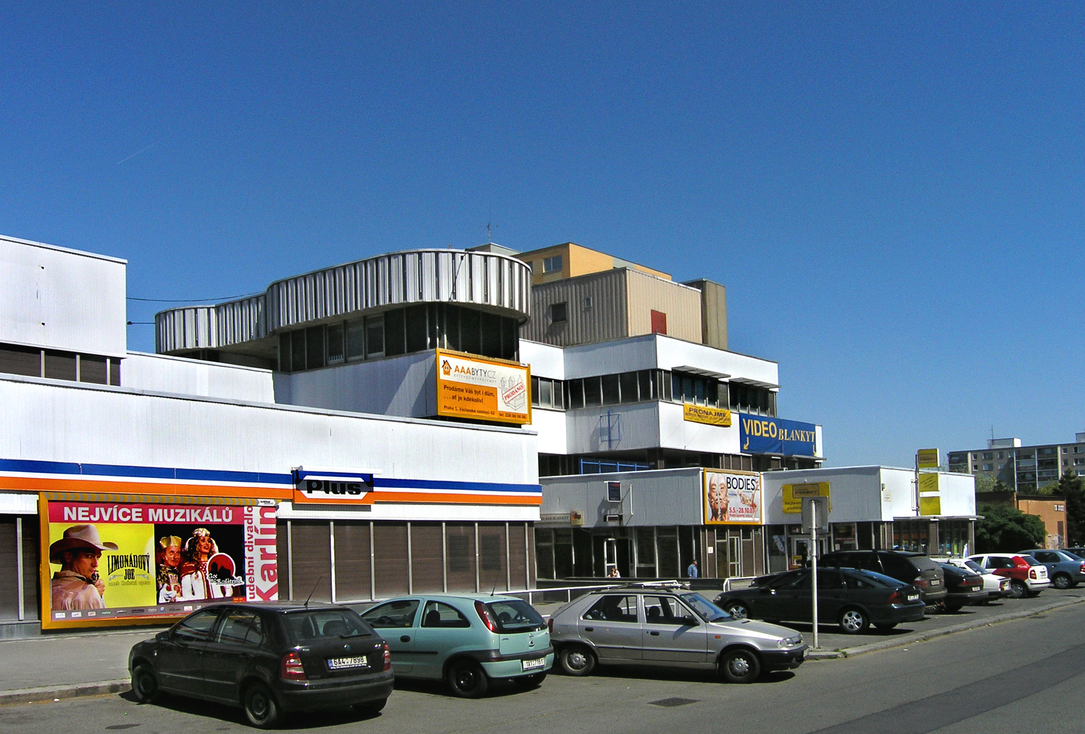 Shopping center Blankyt at Jižní Město housing estate, Prague